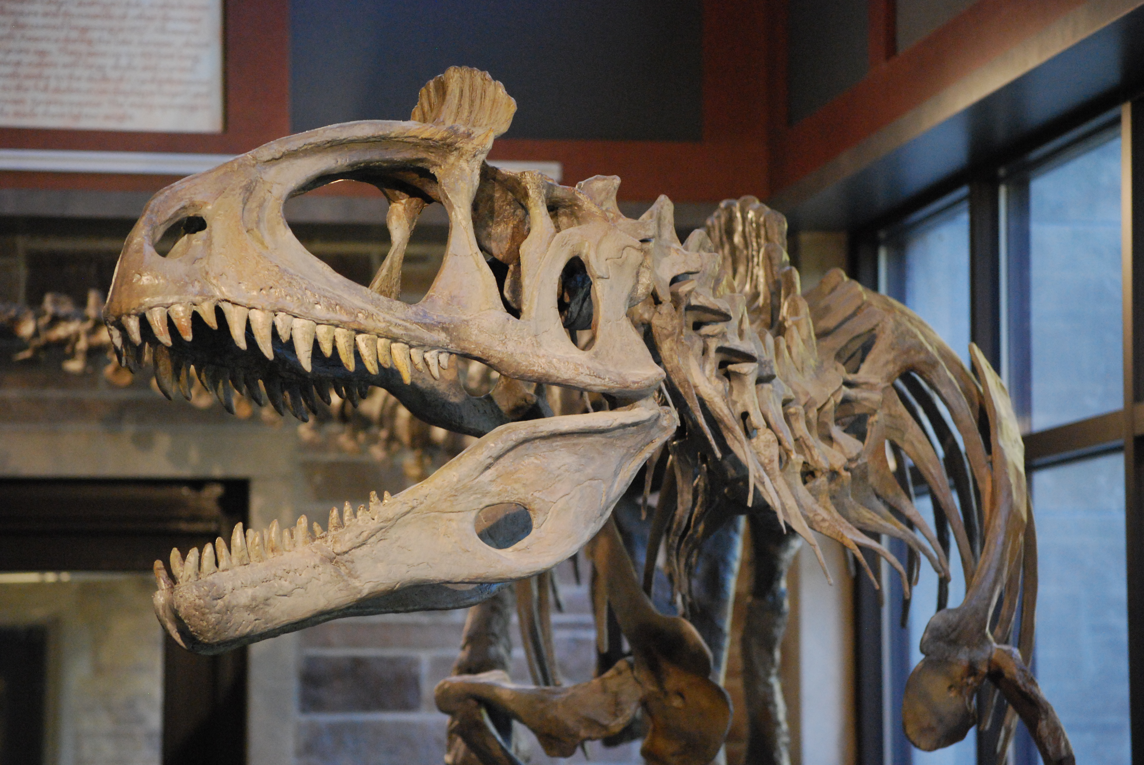 Cryolophosaurus